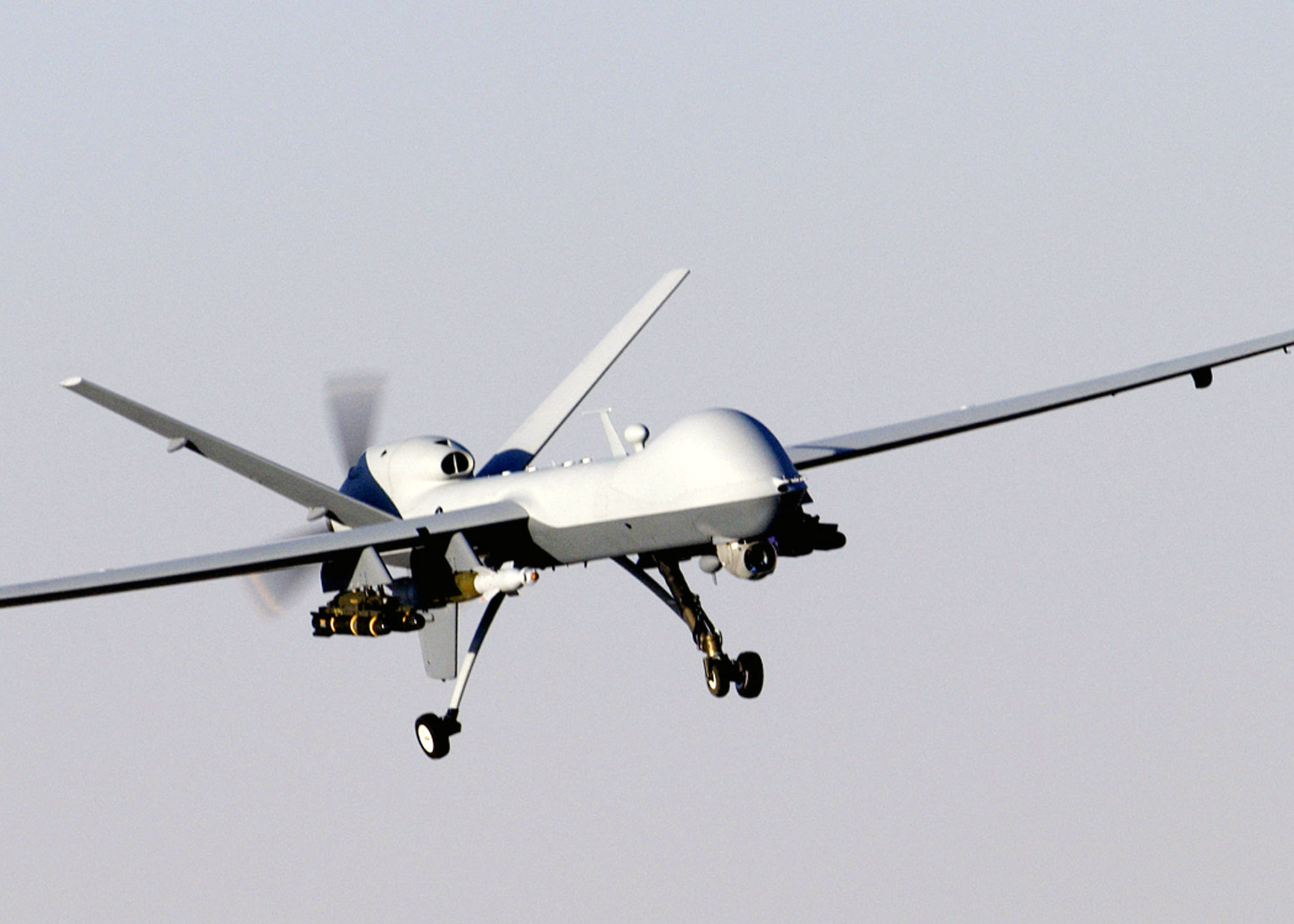 A MQ-9 Reaper US military unmanned aerial vehicle prepares to land after a mission in support of Operation Enduring Freedom in Afghanistan. The Reaper has the ability to carry both precision-guided bombs and air-to-ground missiles.